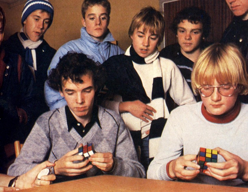 this is a picture of danish cube champion Jan Soerensen and runner up Simon Laub. Taken by me at the championships in 1981.